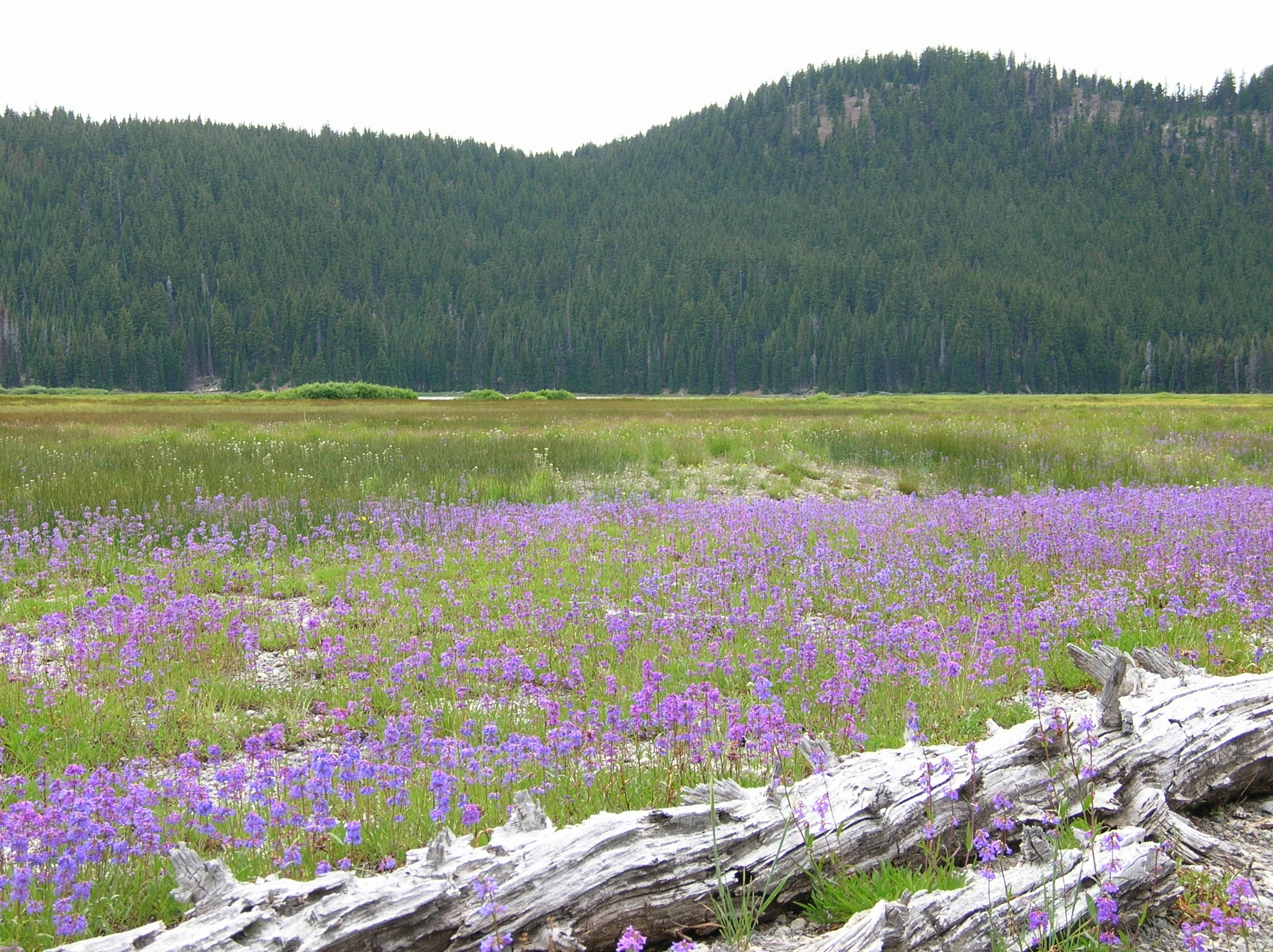 Wildflowers at Sparks Meadow, OR from National Scenic Byways website, USDOT, declared to be public domain. Cascade Lakes Scenic Byway